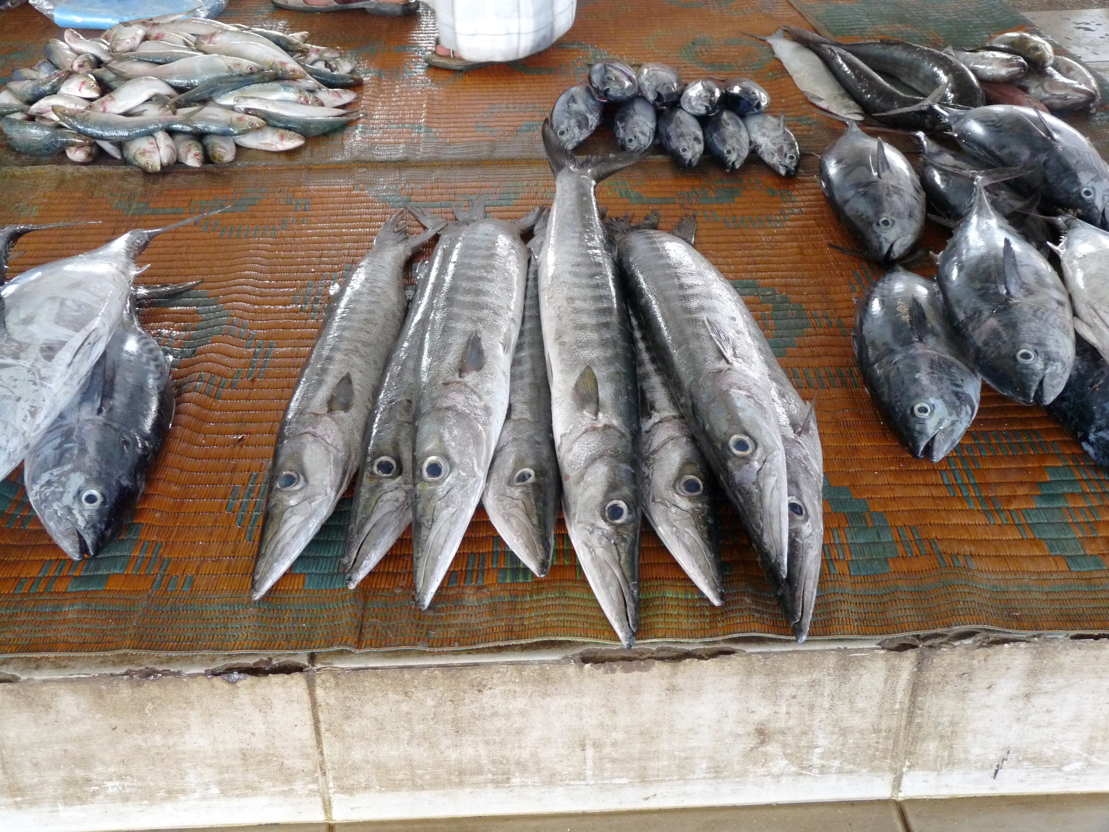 Barracudas at Sur fish market (Oman)